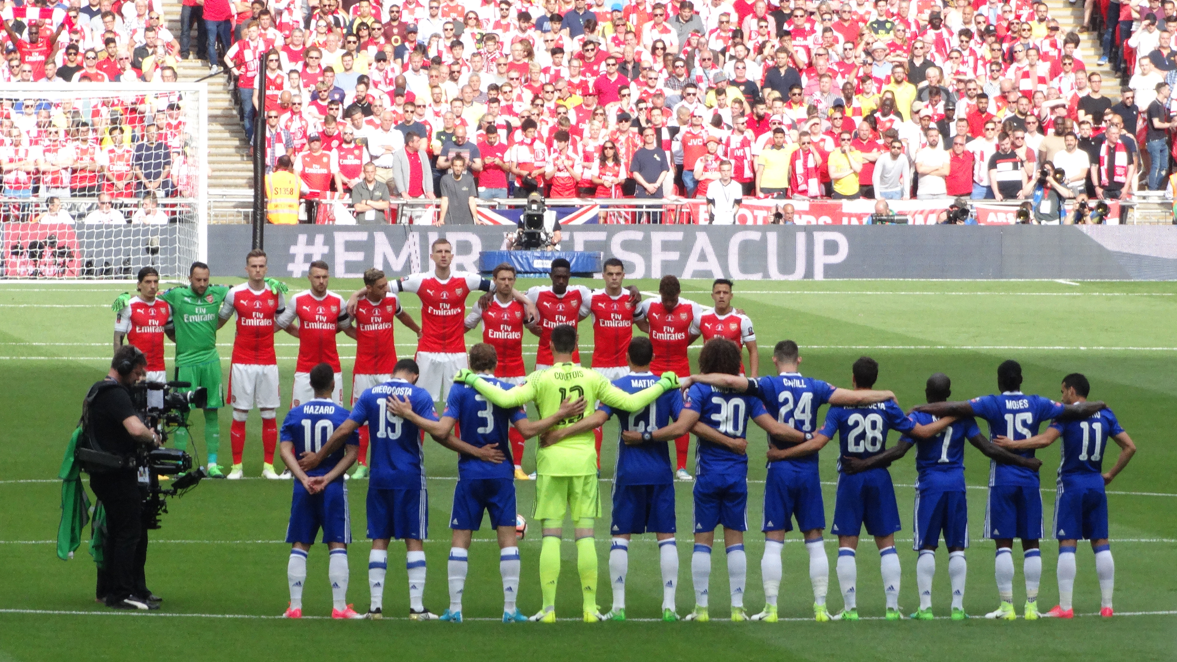 FA Cup Final 27.5.17